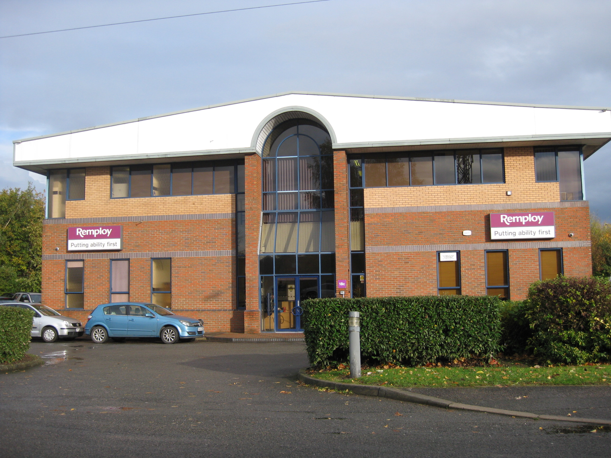 Headquarters of Remploy, Meridian Business Park, Leicester LE19 1WZ